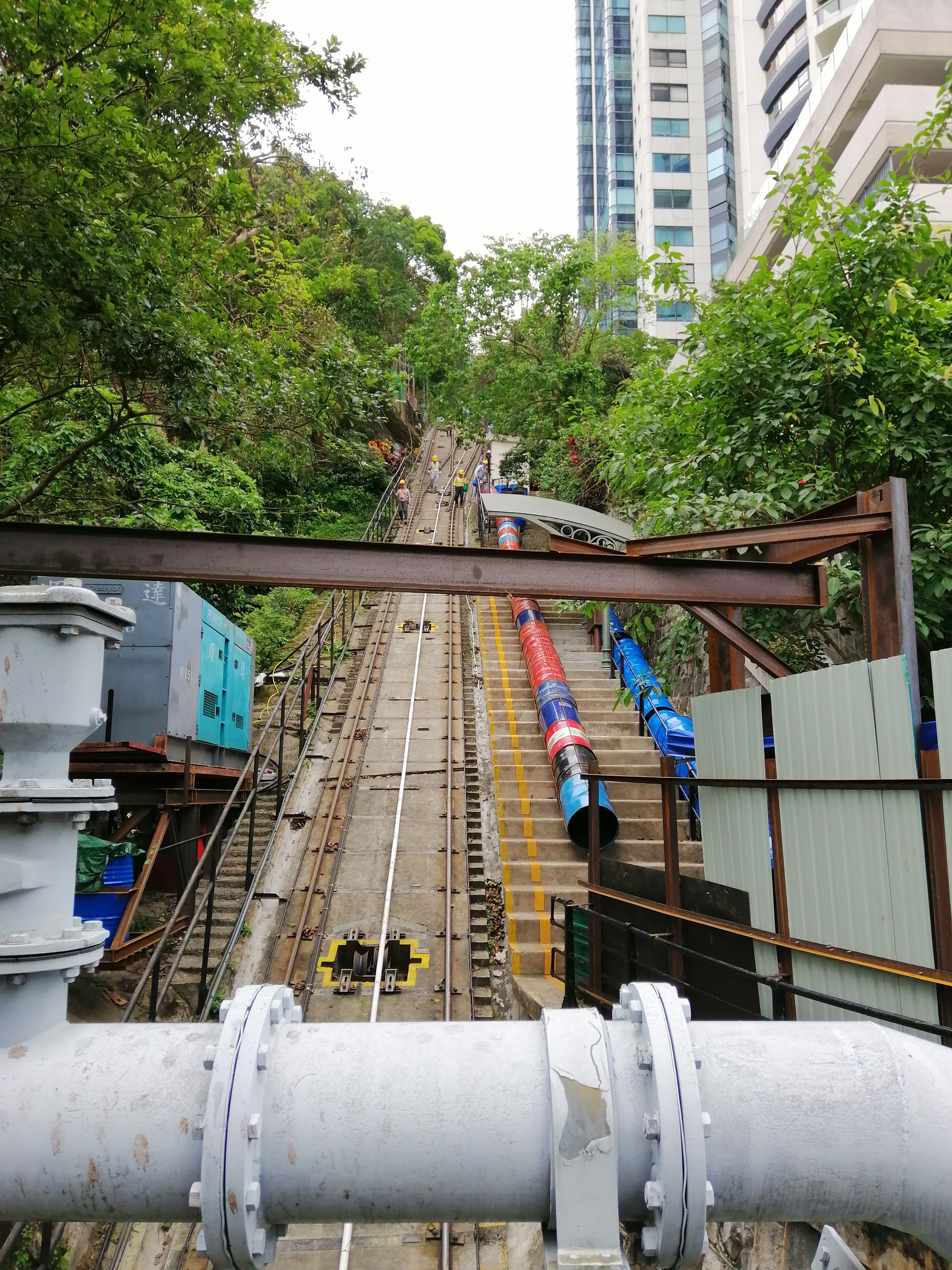 peak tram 5